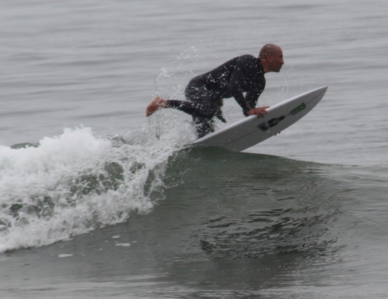 Shot several surfers including the son of a friend and found that I had gotten a shot of Bobby. The local folk speak very highly of him.